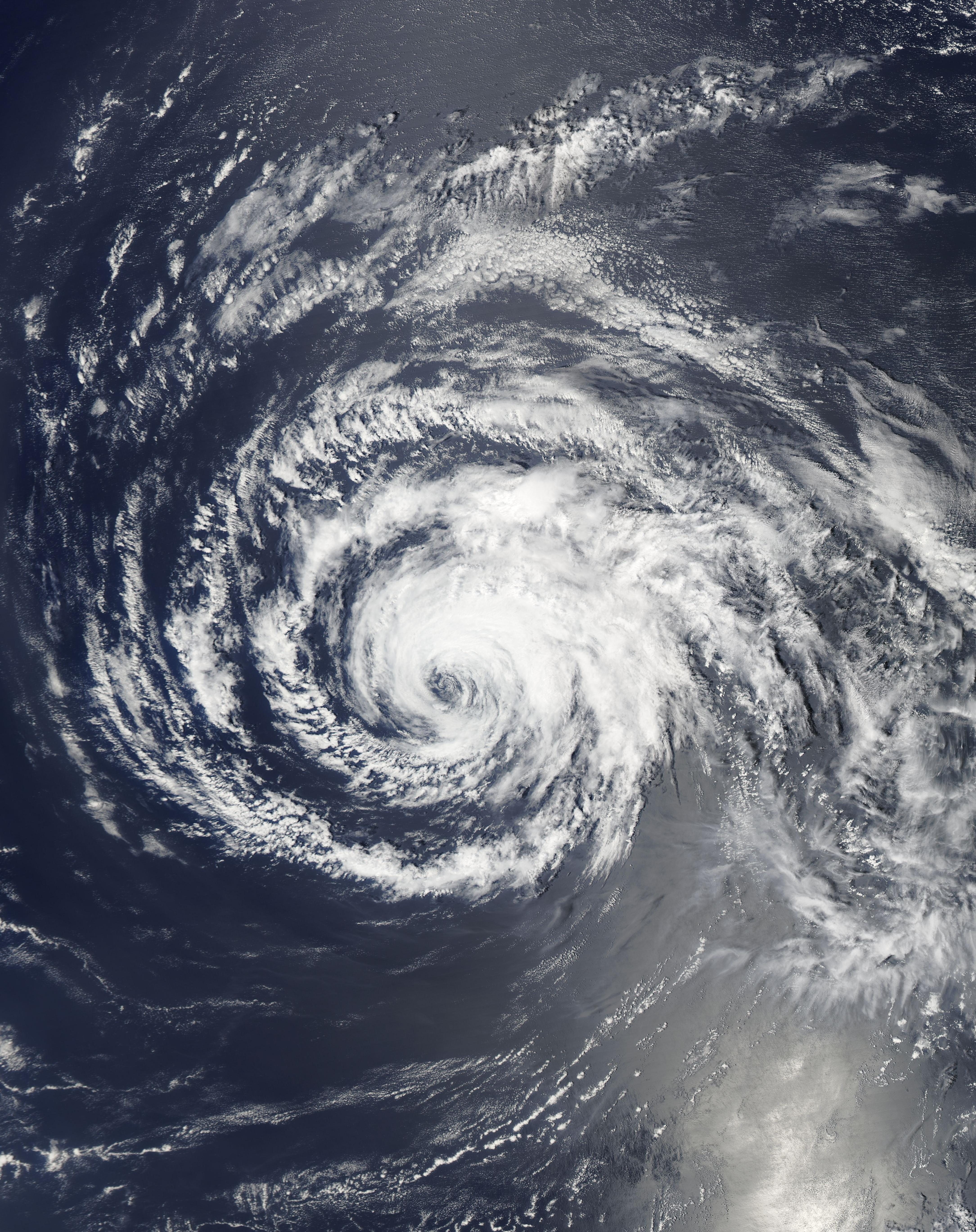 Tropical Depression Fred over Atlantic Ocean on September 2, 2015